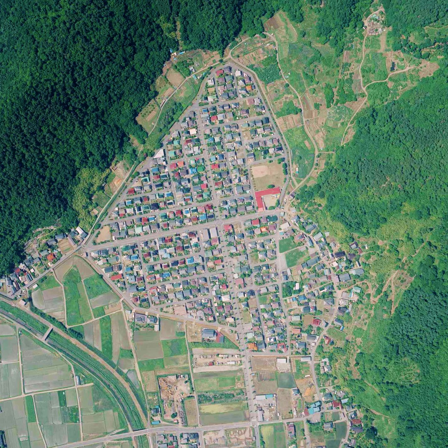 Matsushiro Onsen, Nagano, Nagano.